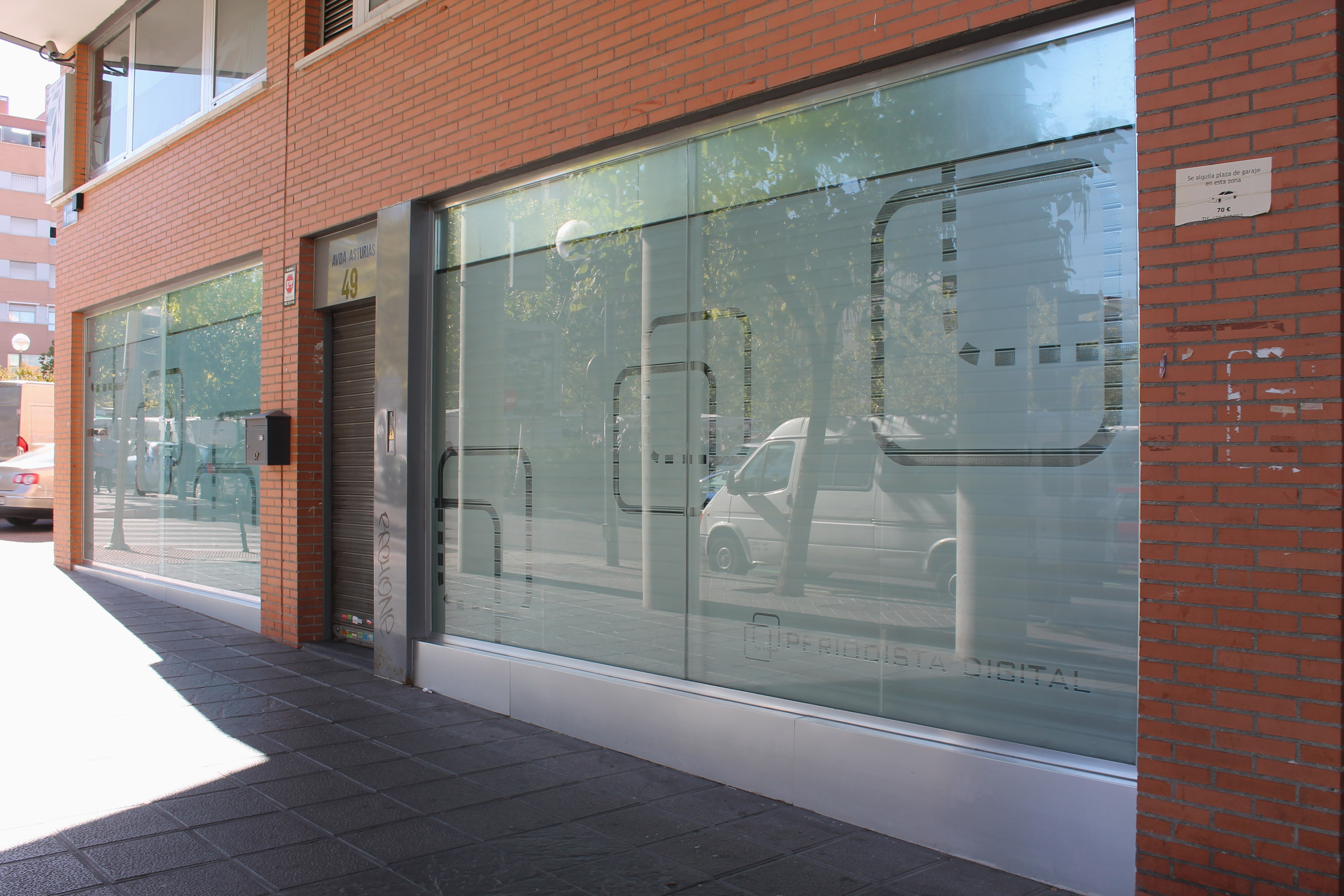 Headquarters of Periodista Digital (an online newspaper), at 49 Avenida de Asturias (avenue) in Tetuán district in Madrid (Spain).